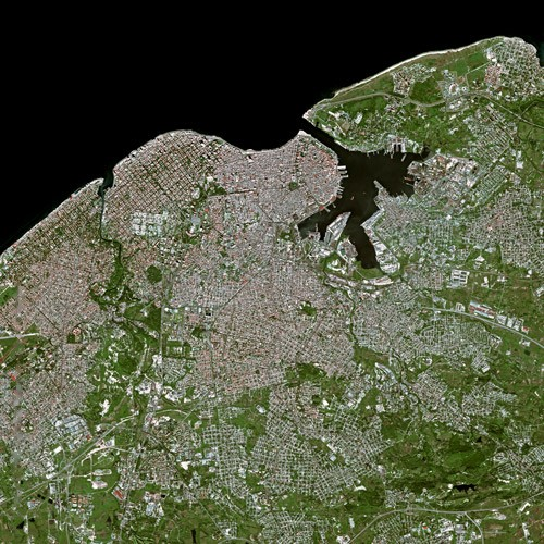 Havana by SPOT Satellite